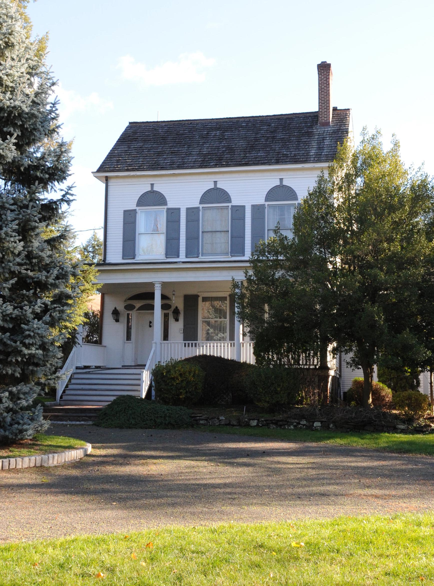 PRE-REVOLUTIONARY HOME OF DAVID TERHUNE, WEAVER AND PATRIOT. FOUR TIMES RAIDED BY BRITISH DURING THE REVOLUTIONARY WAR. FROM 1807 HOME OF THOMAS T. GARDNER, GENTLEMAN OF NEW YORK CITY AND STAYED IN THE GARDNER FAMILY UNTIL 1907